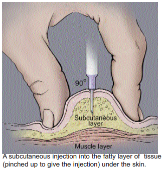 A drawing of subcutaneous injection.